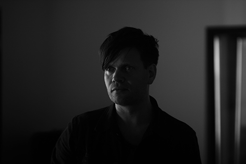 A portrait photography of Anders Trentemøller to illustrate his Wikipedia entry.